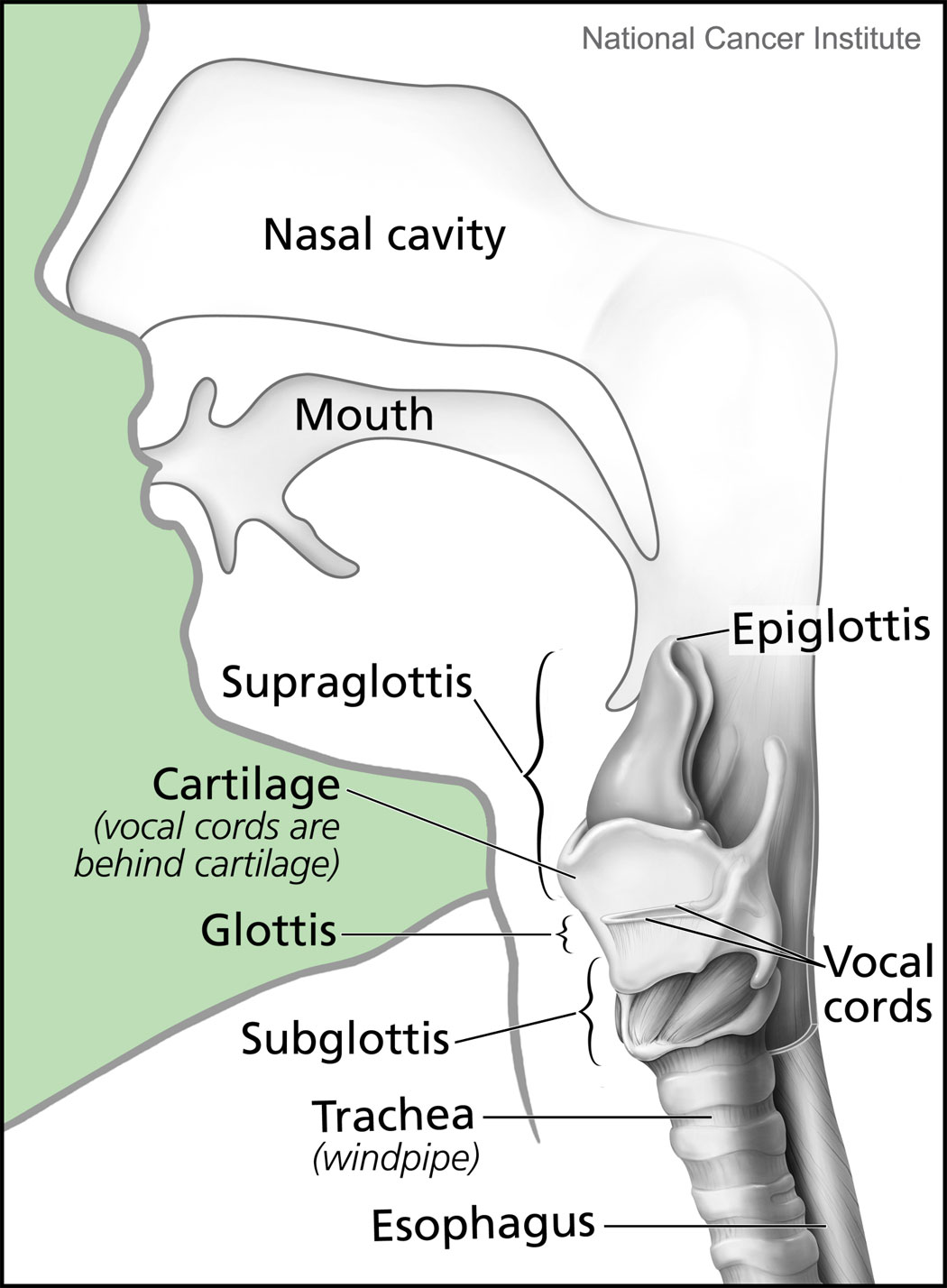 Title Larynx and Nearby Structures Description The main parts of the larynx (supraglottis, glottis, and subglottis) and other nearby structures, including the nasal cavity, mouth, cartilage, vocal cords, trachea and esophagus. Topics/Categories Anatomy -- Digestive/Gastrointestinal System Type Color, Medical Illustration Source National Cancer Institute